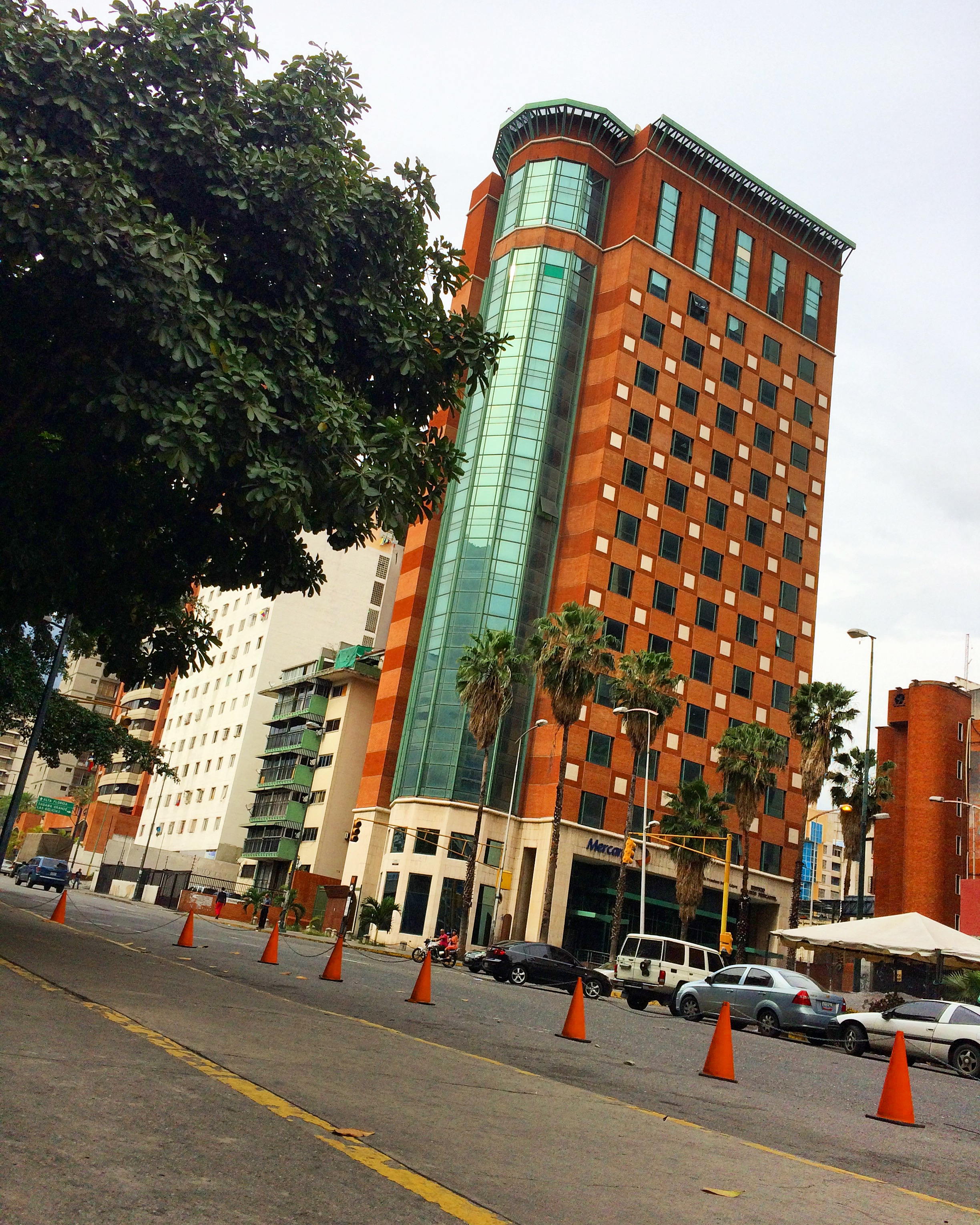 Sabana Grande Edificio Seguros Mercantil